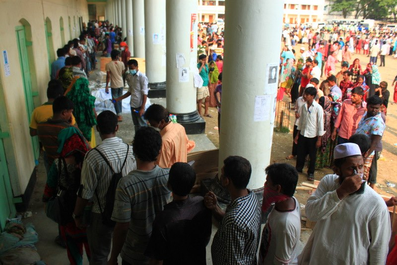 2013 Savar building collapse. Relatives waiting in line to check for the missing among the deadbodies. Photos taken by Sharat Chowdhury, permission obtained from him for use in Wikipedia under CC attribution.